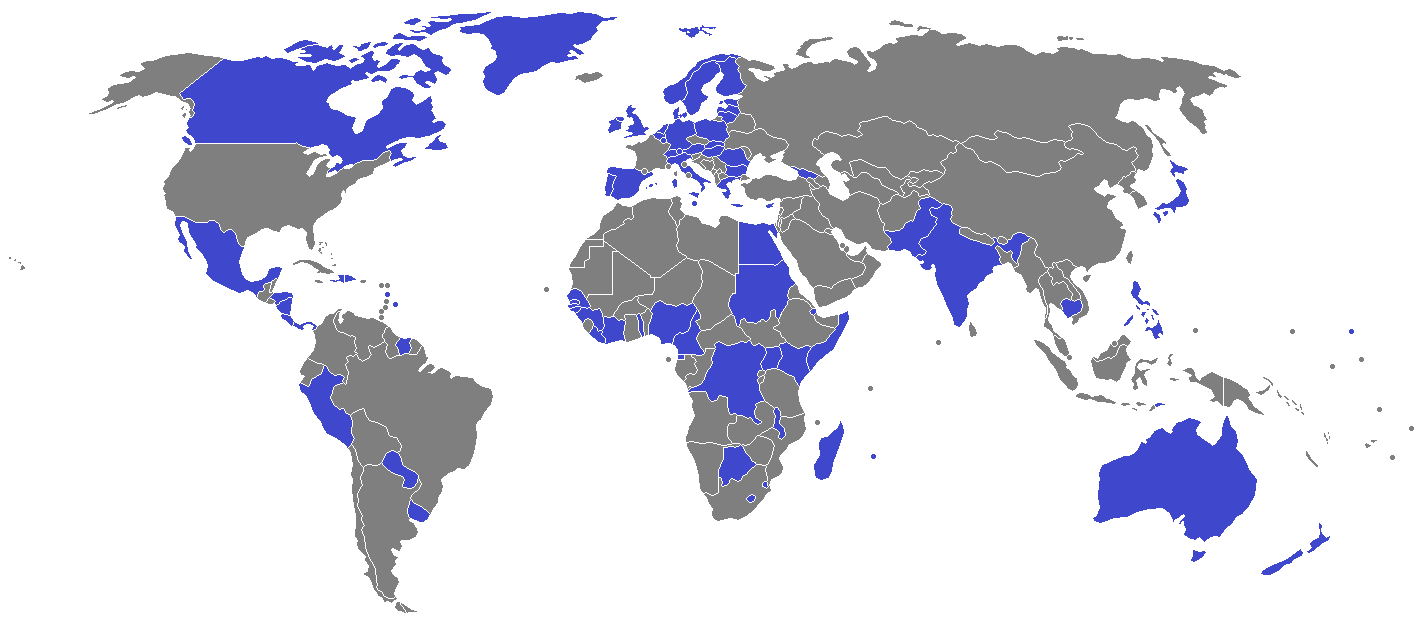 The 72 memberstates of UN which agreed to the compulsory jurisdiction of the International Court of Justice.